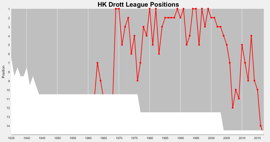 HK Drott positions in the top division. The grey area denotes the number of teams in the top division. For split seasons, the autumn positions are shown when the team did not play in the top division in the spring season.